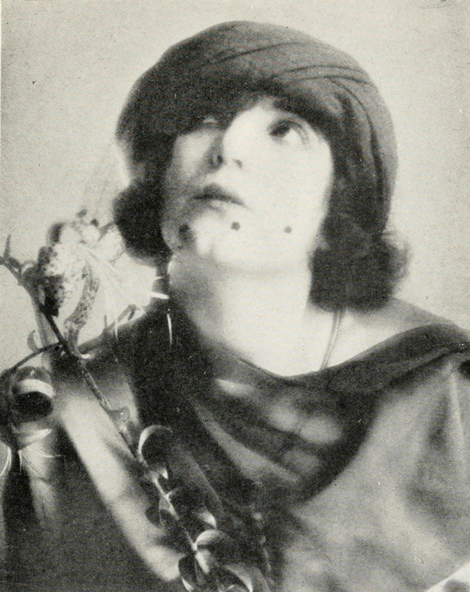 Publicity photo of Louise Glaum from Who's Who on the Screen